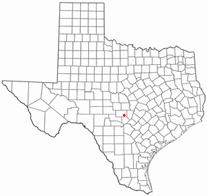 Adapted from Wikipedia's TX county maps; specific source was GFDL'ed TXMap-doton-Fredericksburg.PNG from Seth Ilys.